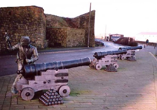 'Gunner' sculpture, Whitehaven. This is on the West Strand. There are several sculptures in similar style around Whitehaven.